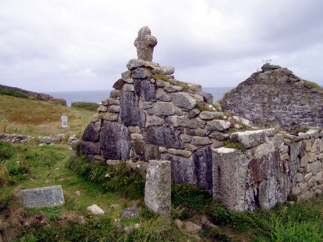 St Helen's Oratory, Cape Cornwall